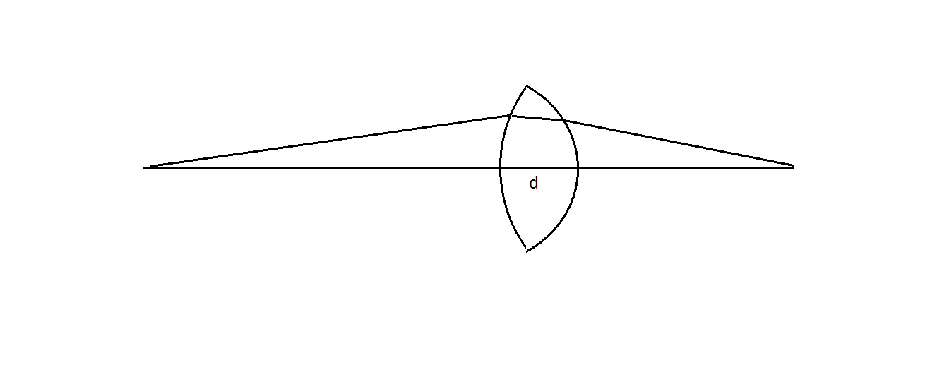 Lens ray tracing